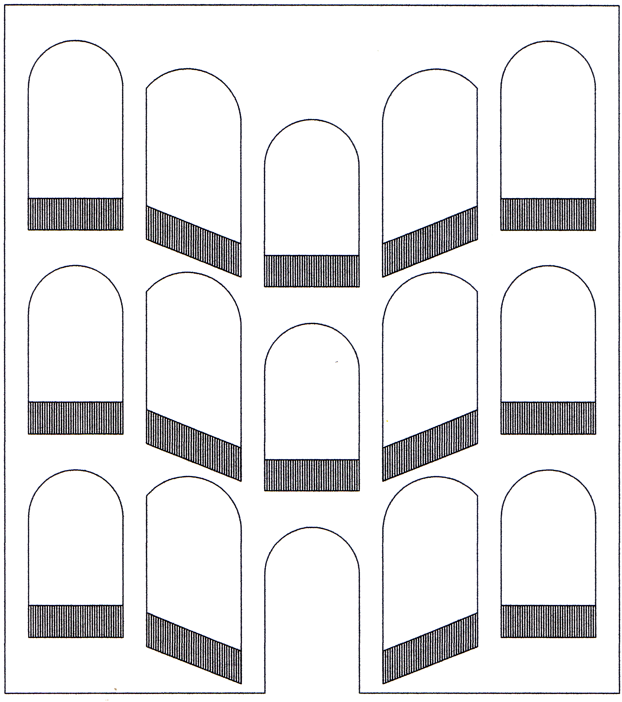 An example of neapolitan staircase's scheme